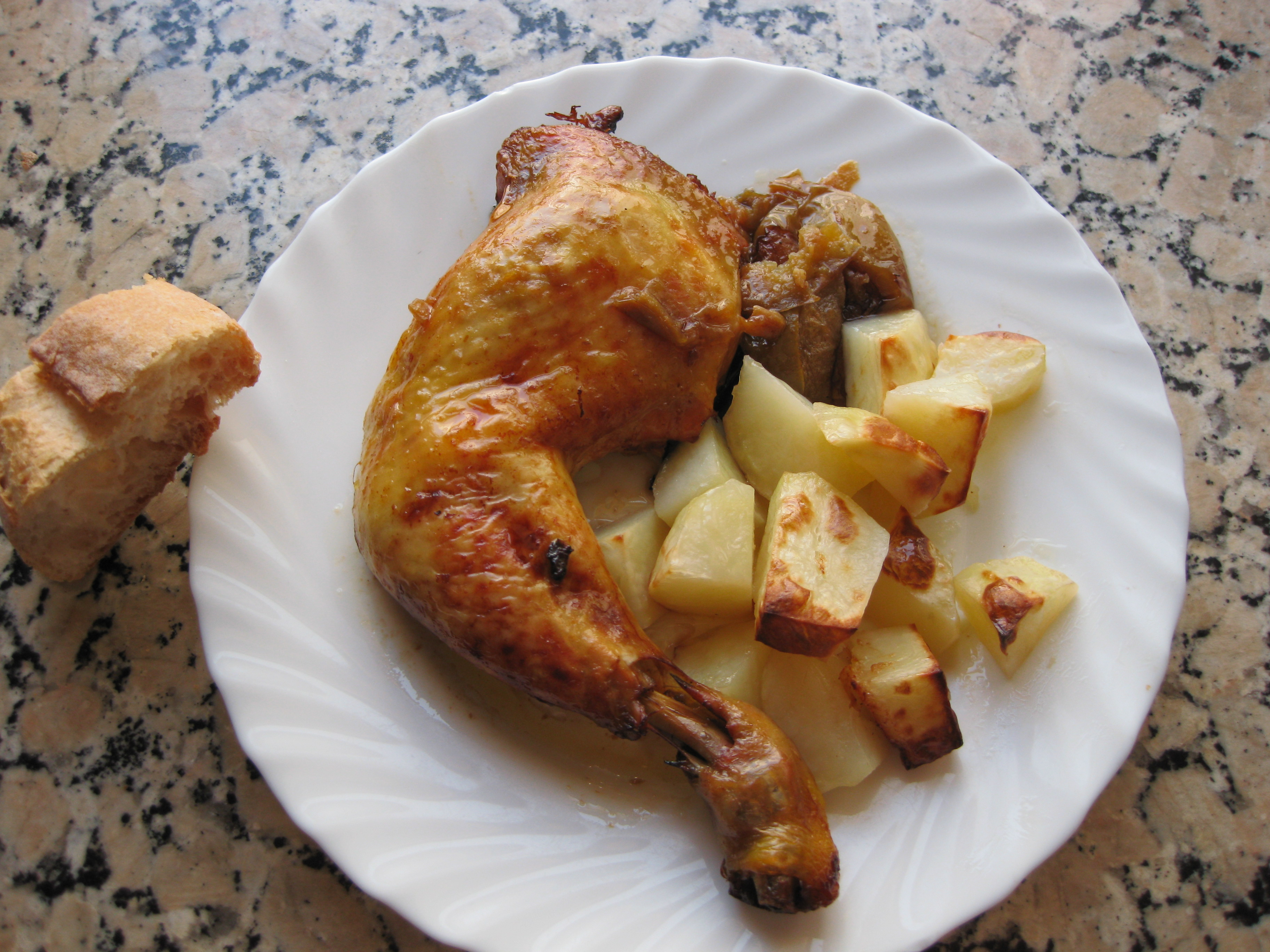 Roast chicken with apples and potatoes.